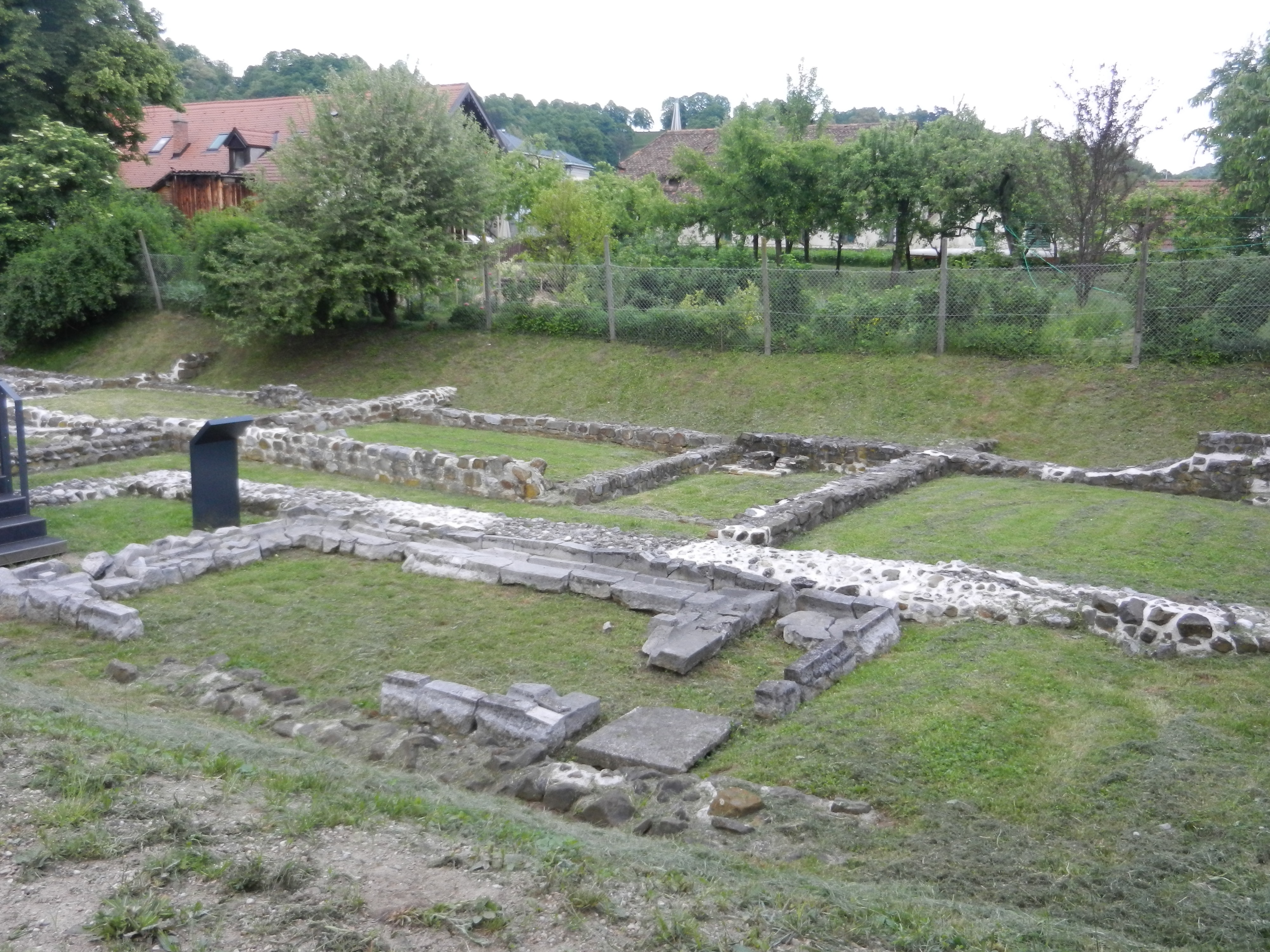 At the former Jakopič garden is an archaeological park "Emona House"